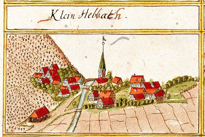 View of Kleinheppach, Korb, from the forest register books created by Andreas Kieser